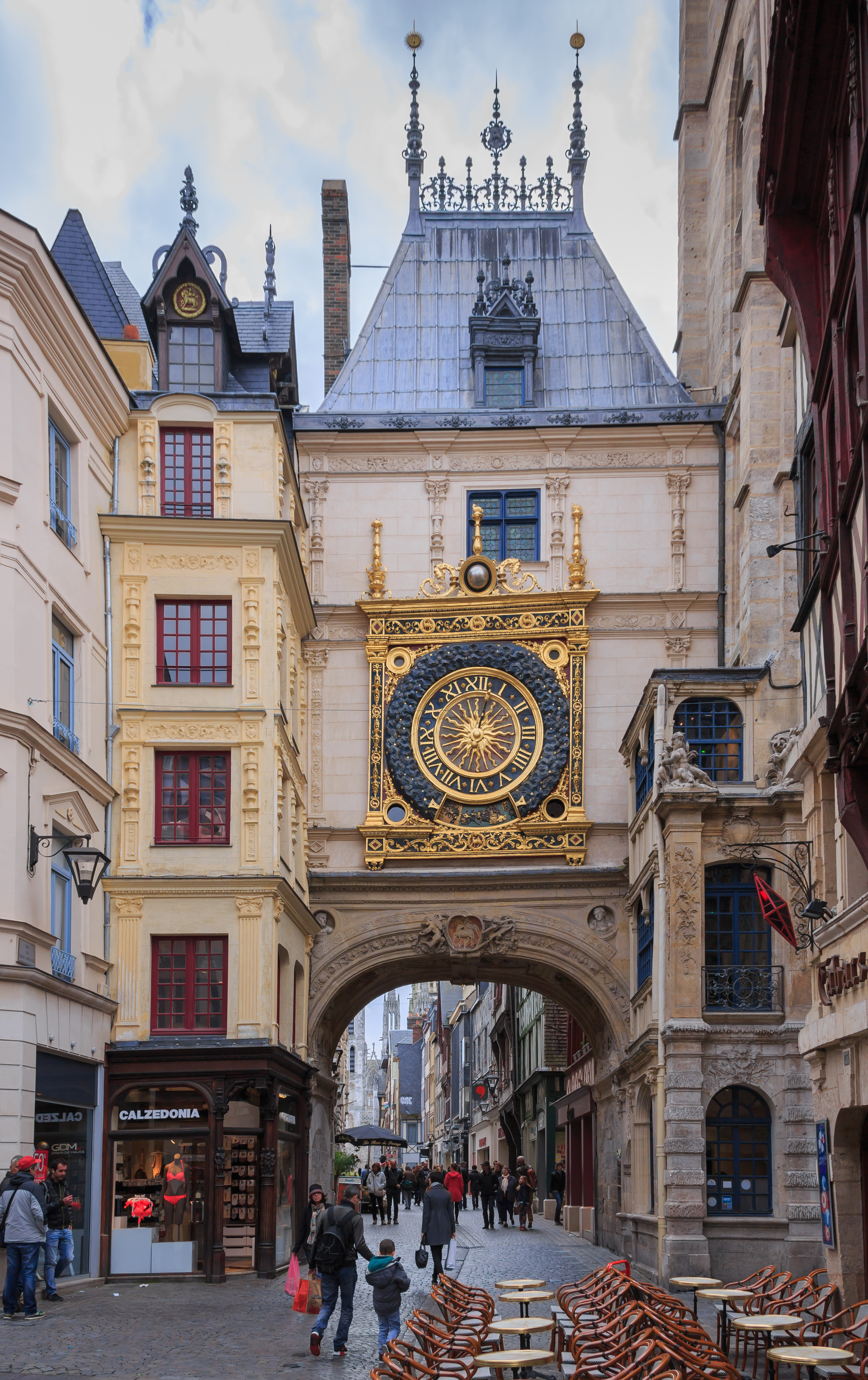 Rouen, France: Gros Horloge in Rouen (backside)